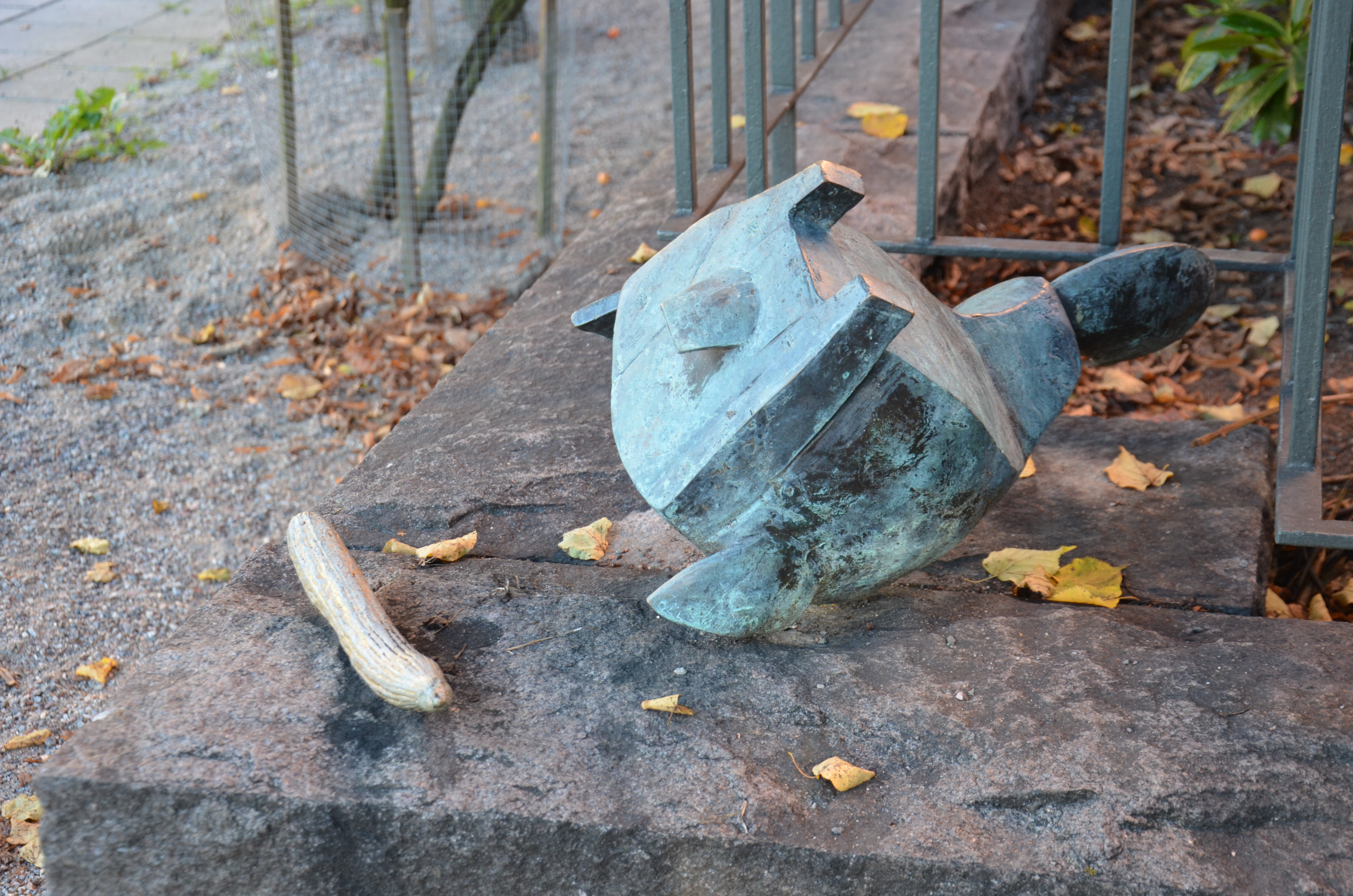 Korvhunden av Olle Brand, Grubbensparken i Stockholm